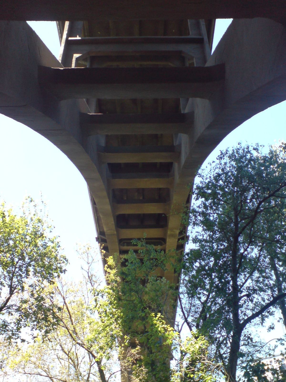 The structure underneath the Grafton Bridge in Auckland City, New Zealand. Looking eastwards from the western side.